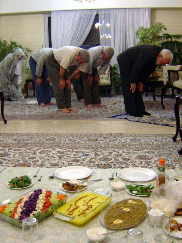 "Maghreb" or "Sunset Time" is the time which Muslims finish their fasts with eating and drinking. The food and drink used for this time is named Eftari. This time - Maghreb - is also the time for praying. So some religious men and women use to pray before eating or drinking... Added note: See this photo in BBC